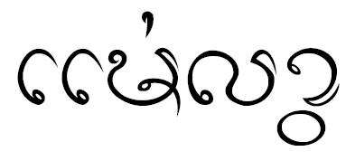 Lanna script – Mae Lao is a district (amphoe) in the central part of Chiang Rai Province, northern Thailand.